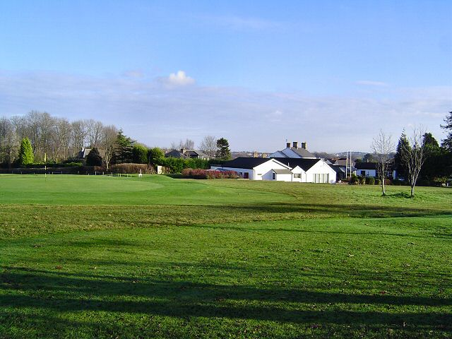 Dinas Powys golf club. A view of the clubhouse. This golf course is pretty well ensconsed within the village. Not far to walk for urban golfers!